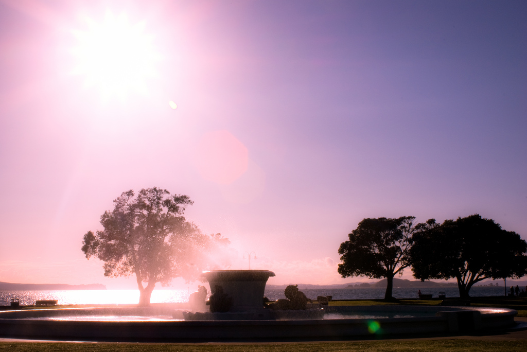 15/52: Dreamy sky in mission bay. This was taken on the way back to the car since the burger king there was still closed and we didn't want to wait another 40mins for it to open. Lol